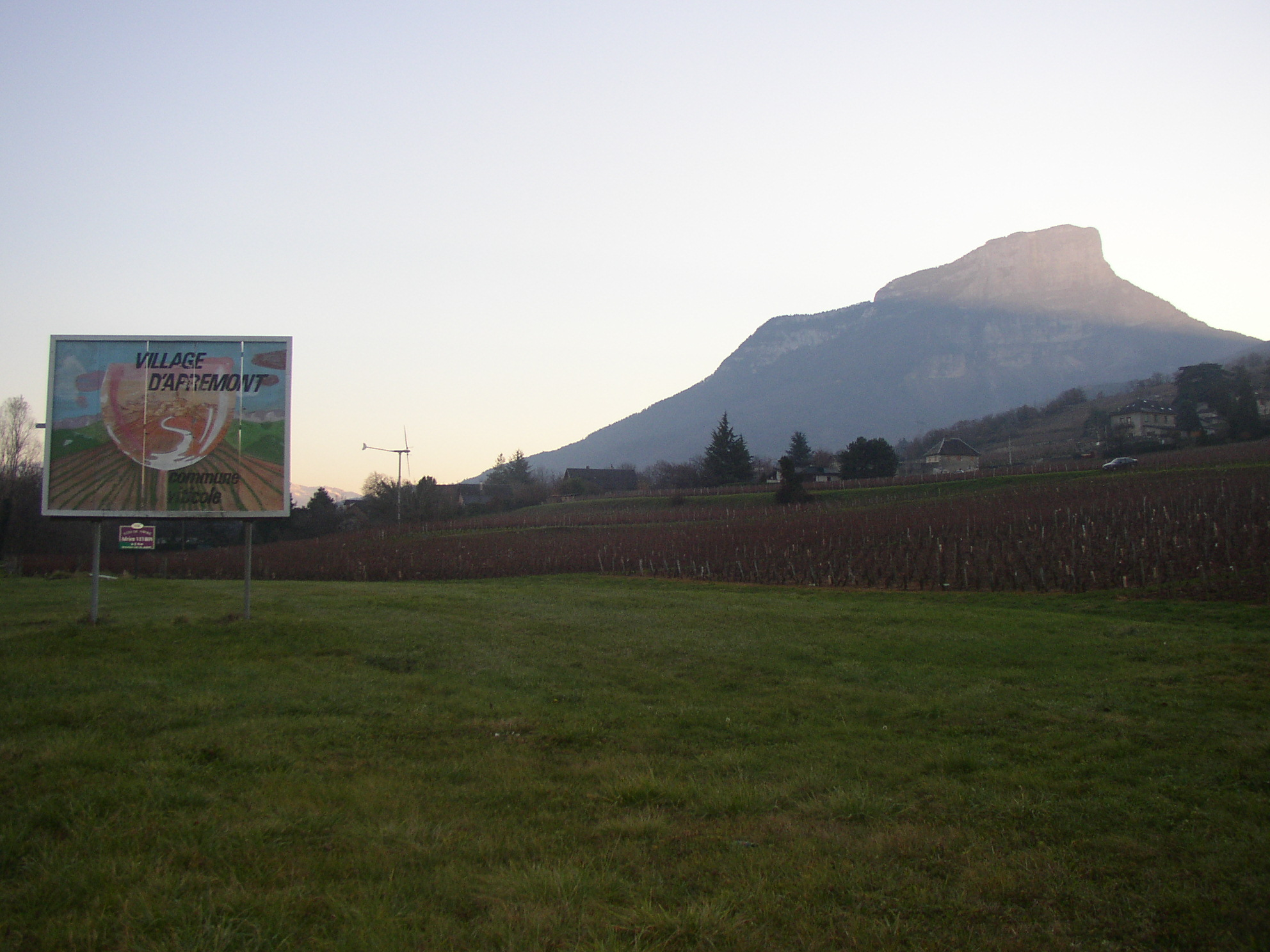 The wine-producer village of Apremont (Savoie, France) in front of the Mount Granier.